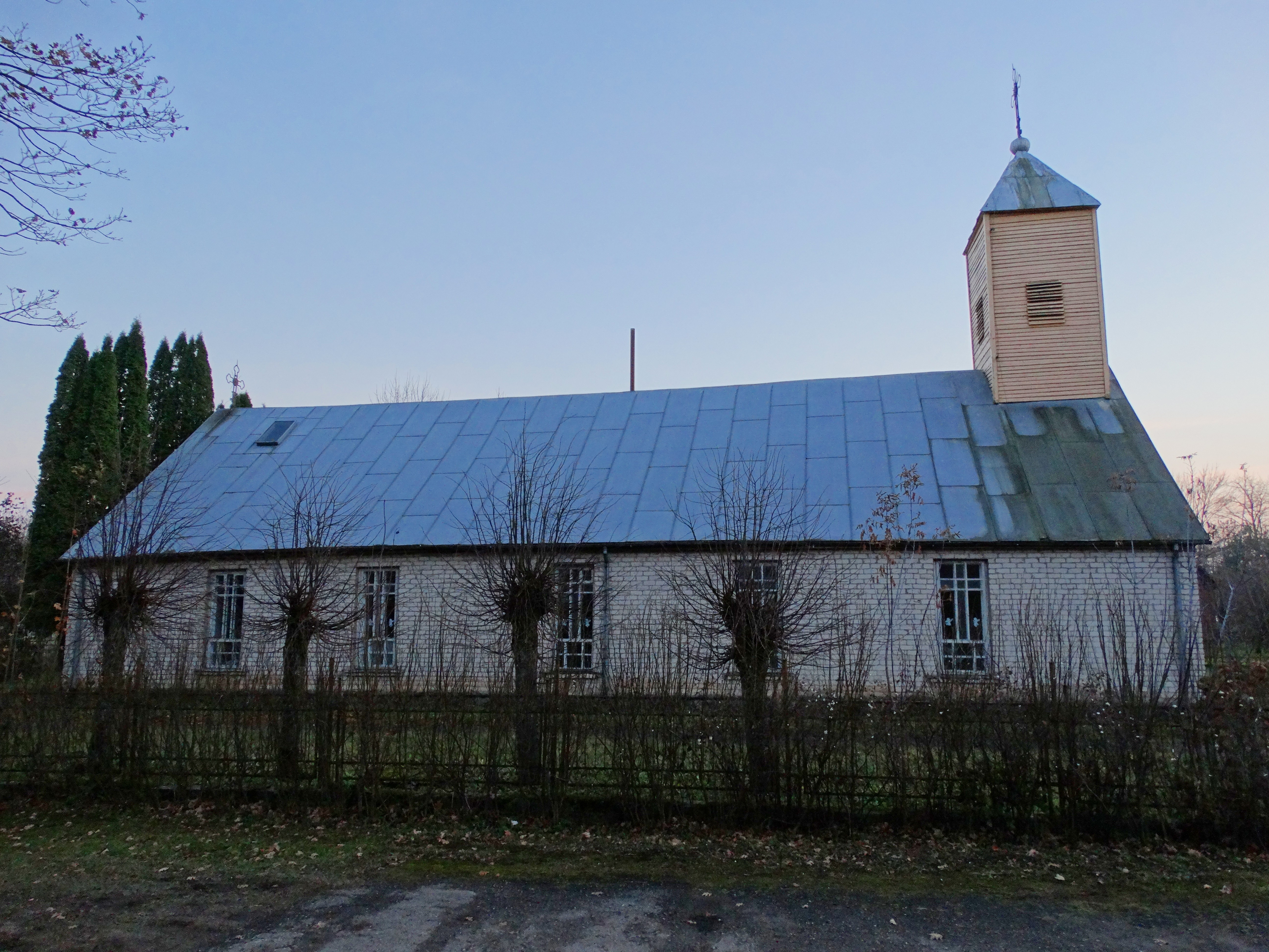 Roman Catholic Church in Gulbinėnai, Pasvalys district, Lithuania